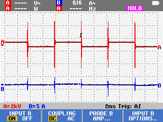 The electronic ballast creates a square waveform for lamp operation with high frequency ignition pulses added by a series transformer.